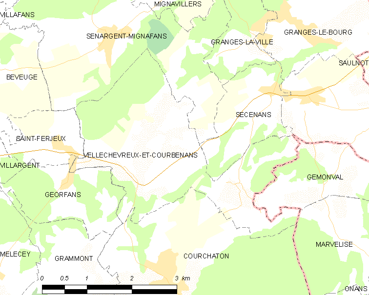 Map of French municipality